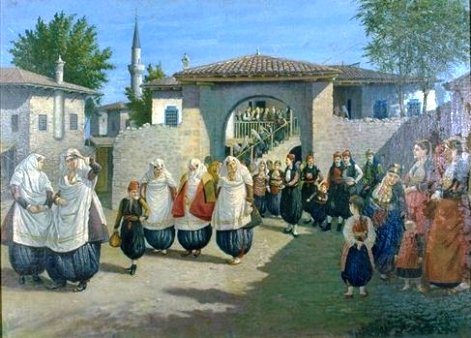 Kolë Idromeno, Dasma Shkodrane, 133x94 cm